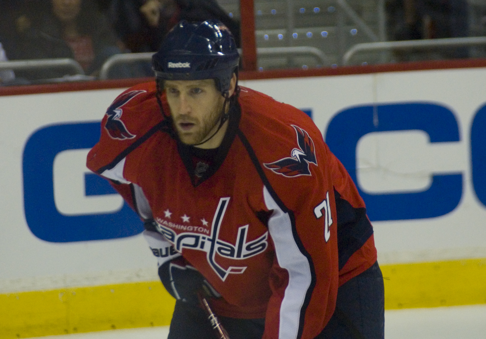 Brooks Laich Photo taken on March 3, 2011 by Sarah Connors. St. Louis Blues vs. Washington Capitals – National Hockey League (NHL) This photo also appears in sarah_connors' Flickr photostream Blues @ Caps, 3/3/11 (Set: 134) Flickr Tags: St. Louis Blues, Washington Capitals, Capitals, Caps, Blues, hockey, icehockey, NHL, Verizon Center